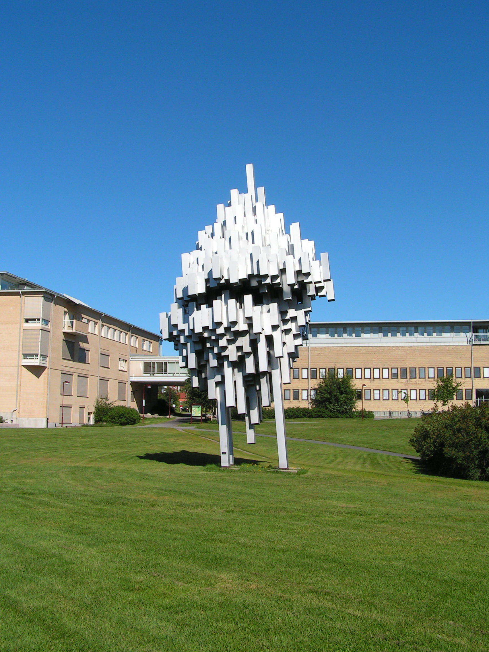 Ernst Nordin (1934—), "Northern light". Photo taken at Umeå University Campus